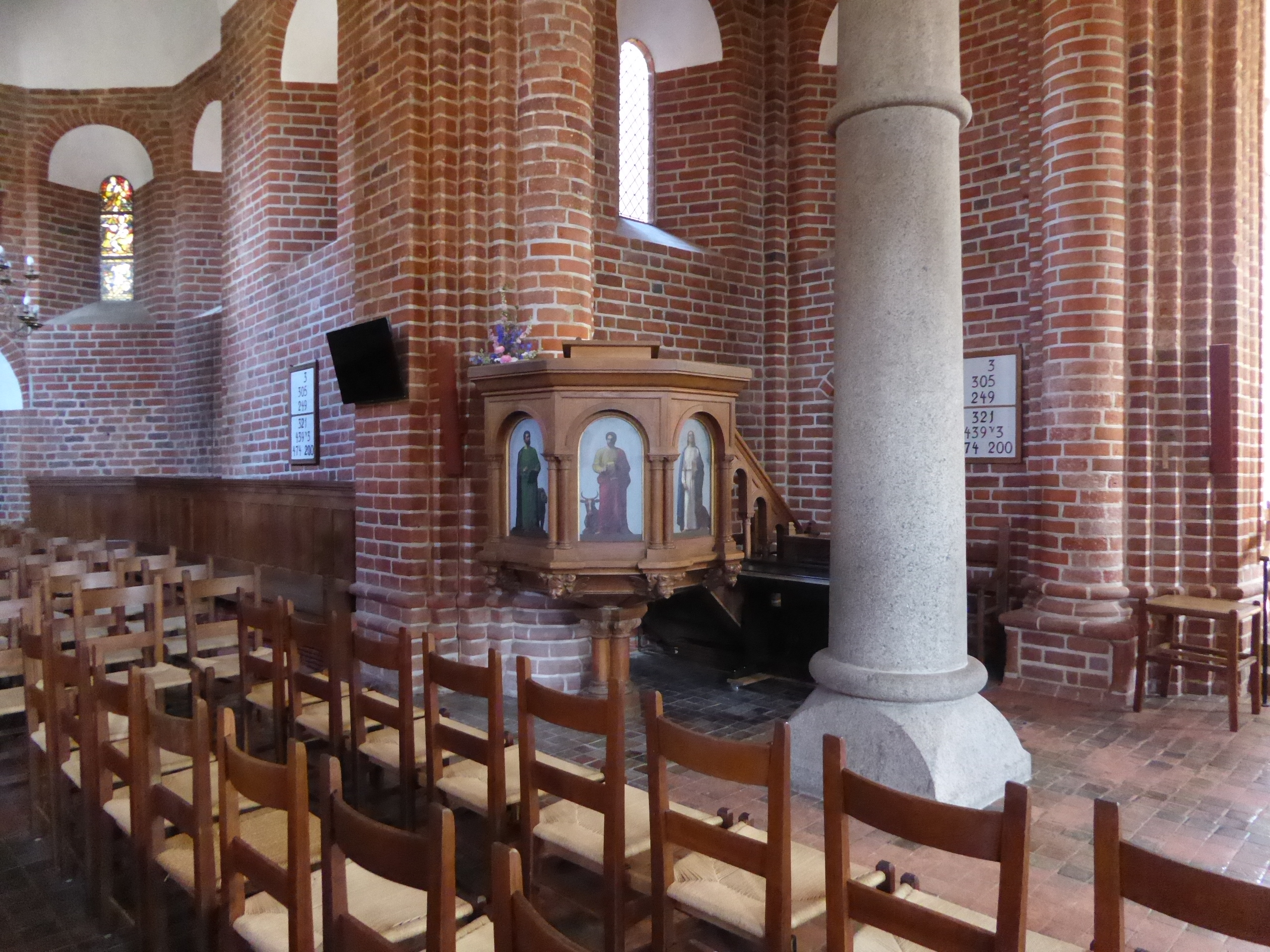 Pulpit in Vor Frue Kirke (Church of Our Lady) in Kalundborg in Denmark.